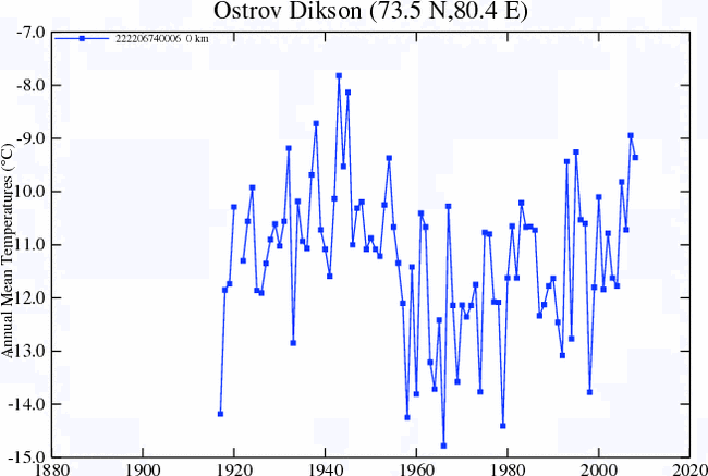 Graph of 1916 2008 air average temperaturas at area of Ostrov Dikson, Russia